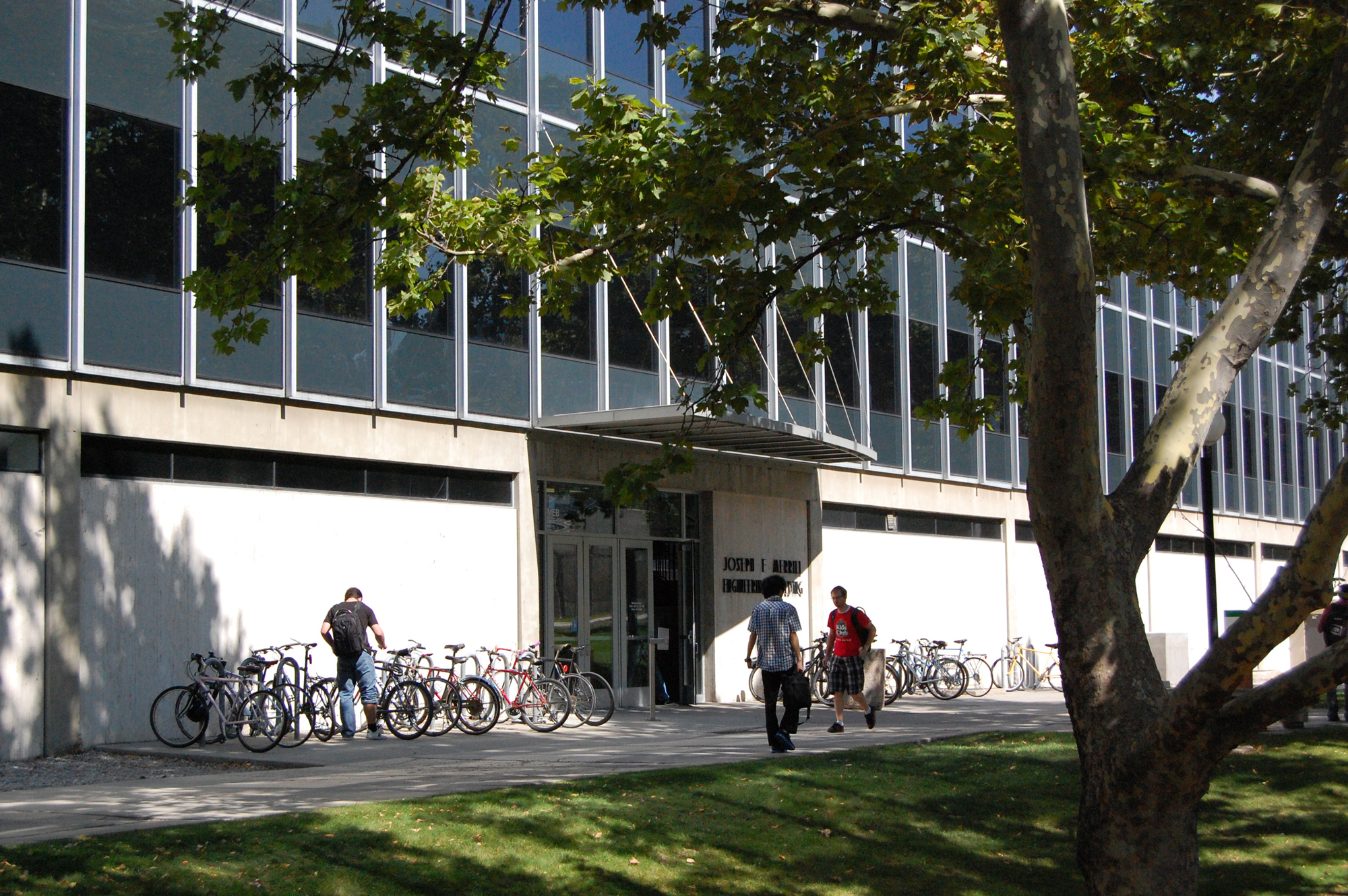 Joseph F Merrill Engineering Building at the University of Utah.